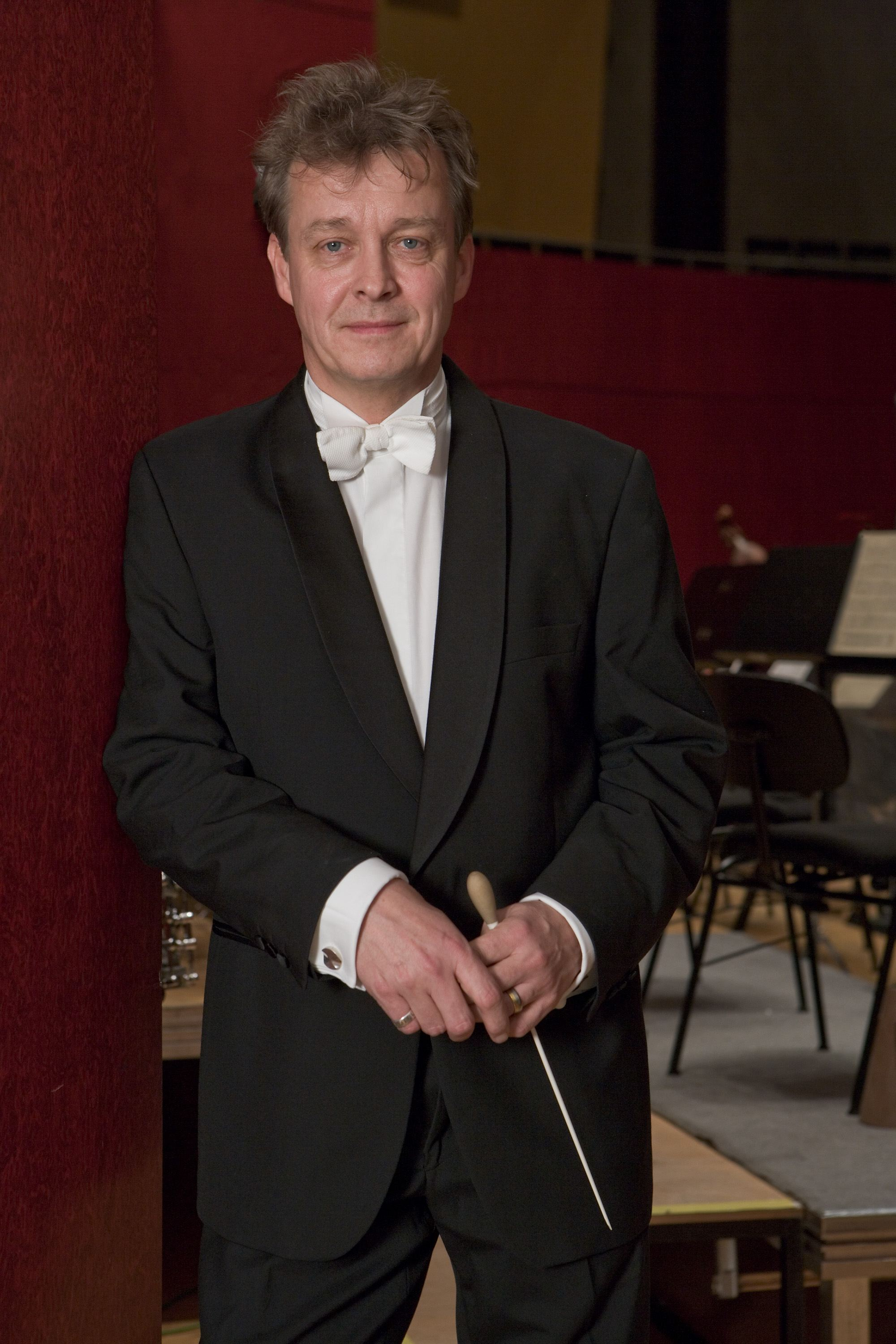 Germany, Stuttgart